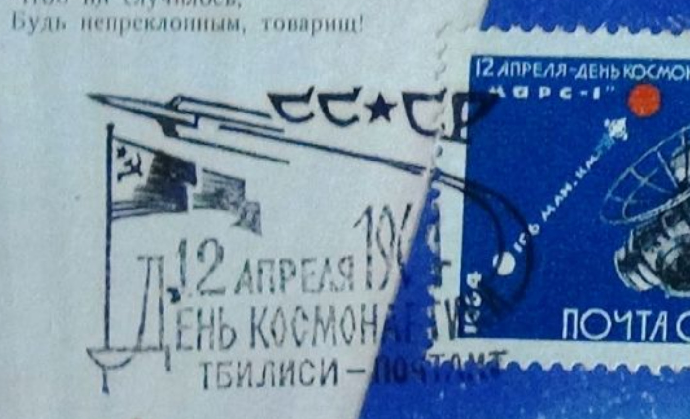 Cosmonautics Day 1964-04-12 special postmark on Mars-themed stamp